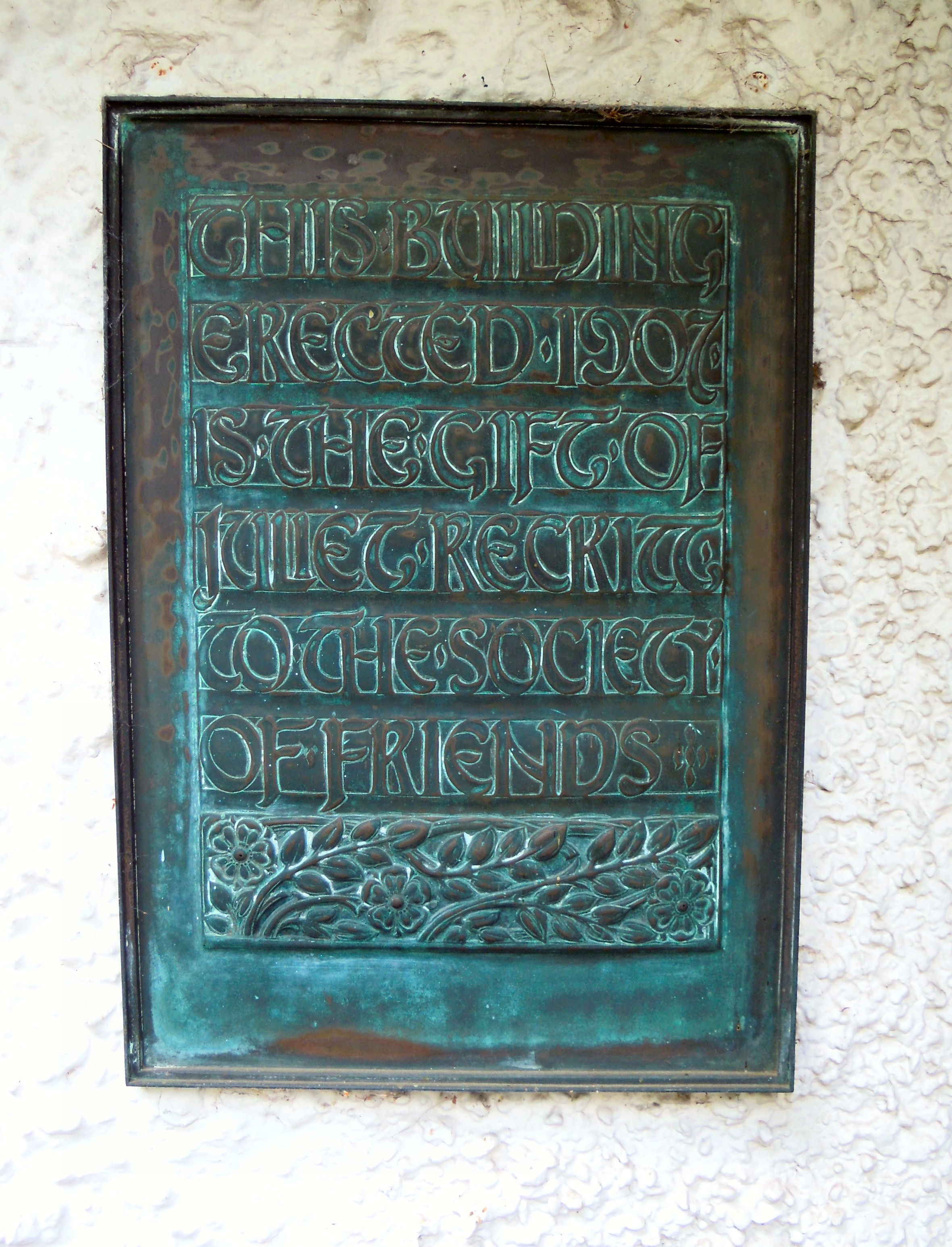 Howgills, the Meeting House for the Society of Friends built in 1907 in Letchworth Garden City